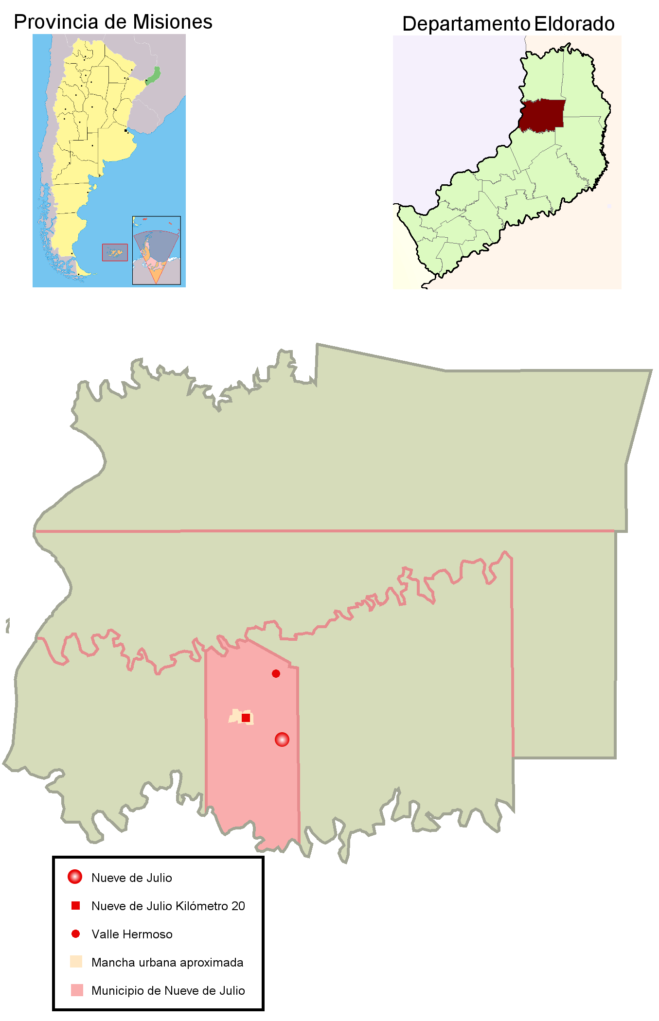 A map showing municipio of Nueve de Julio in Eldorado departament, Misiones province, Argentina. Also shows Nueve de Julio town location, Nueve de Julio Kilómetro 20 town location (and its urban sector) and Valle Hermoso town location. Created with GIMP.